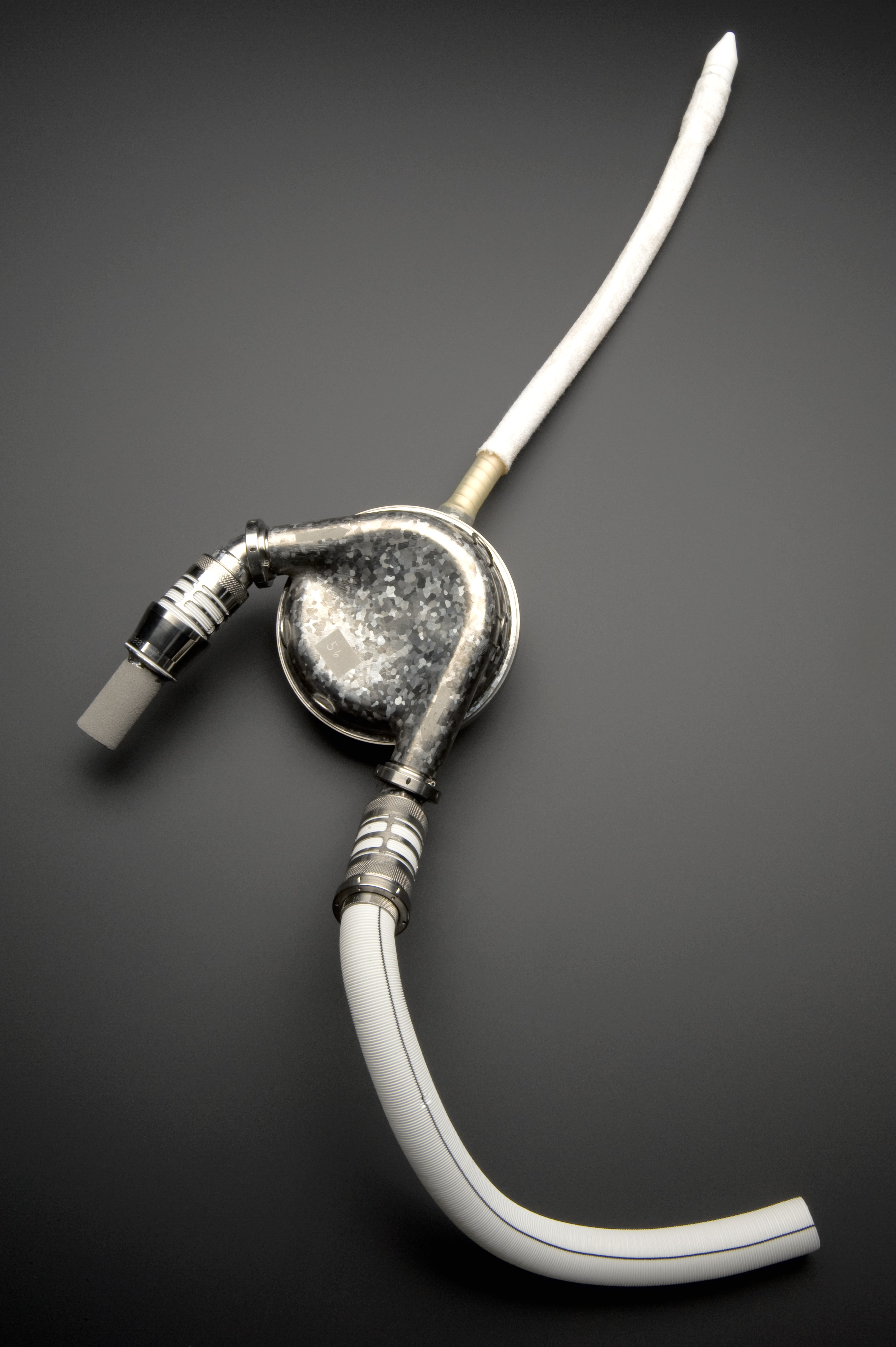 Demand for organs for transplant far outweighs supply. The ‘Heartmate’ left ventricular-assist device (VAD) is an implantable device which assists a failing heart in a patient waiting for a transplant. The ventricles are the lower chambers of the heart which pump blood to the rest of the body. The device can also be implanted into people ineligible for cardiac transplants or those recovering from heart surgery, but is only used in chronic cases of heart disease. The improvement in a patient’s health and quality of life can be almost instant because of the increased blood flow. The Heartmate was made by Thermo Cardiosystems Incorporated. maker: Thermo Cardiosystems Incorporated Place made: United States Wellcome Images Keywords: ventricular-assist device; surgery; heart surgery